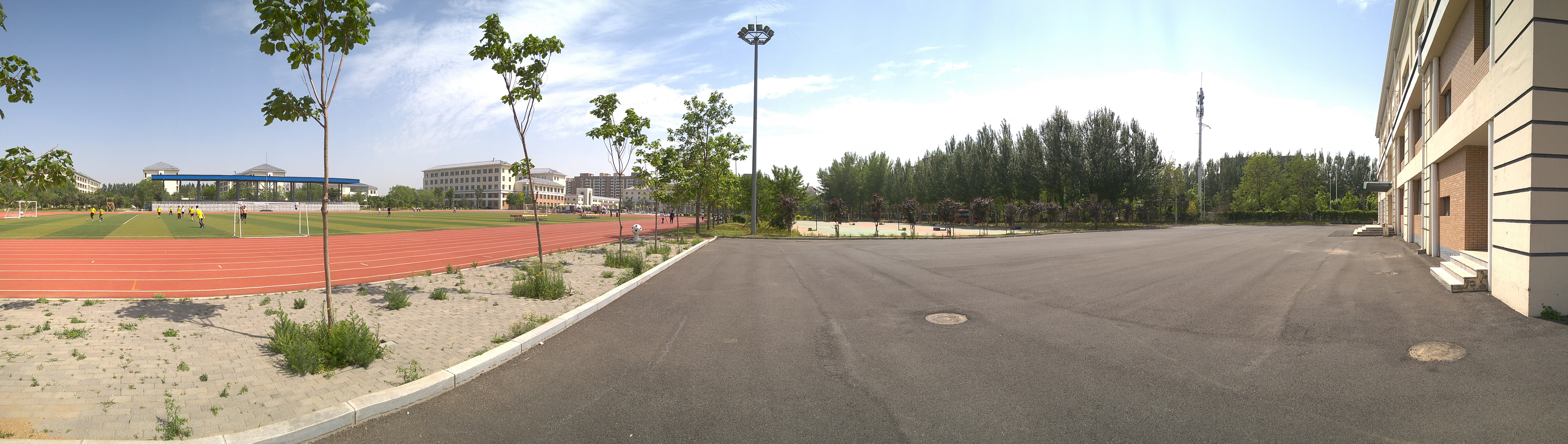 The school migrated from the old campus in Yinzhou District,Tieling City to its new campus in Fanhe Town,Tieling in 2011.